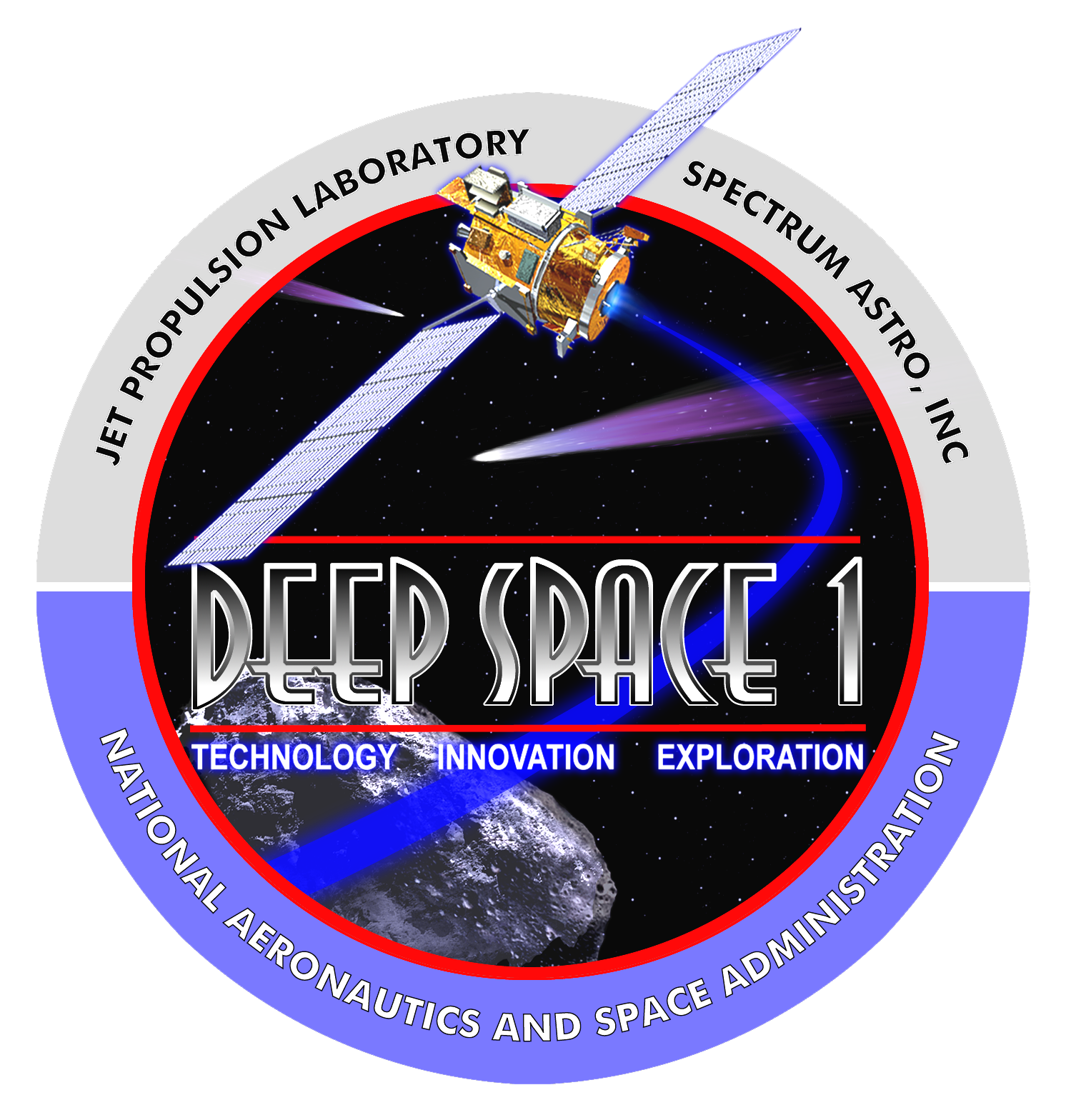 The New Millennium program developed this logo for the Deep Space 1 mission, which will validate new technologies for future missions. Spectrum Astro Inc., Gilbert, AZ, is JPL's primary industrial partner in Deep Space 1 spacecraft development.